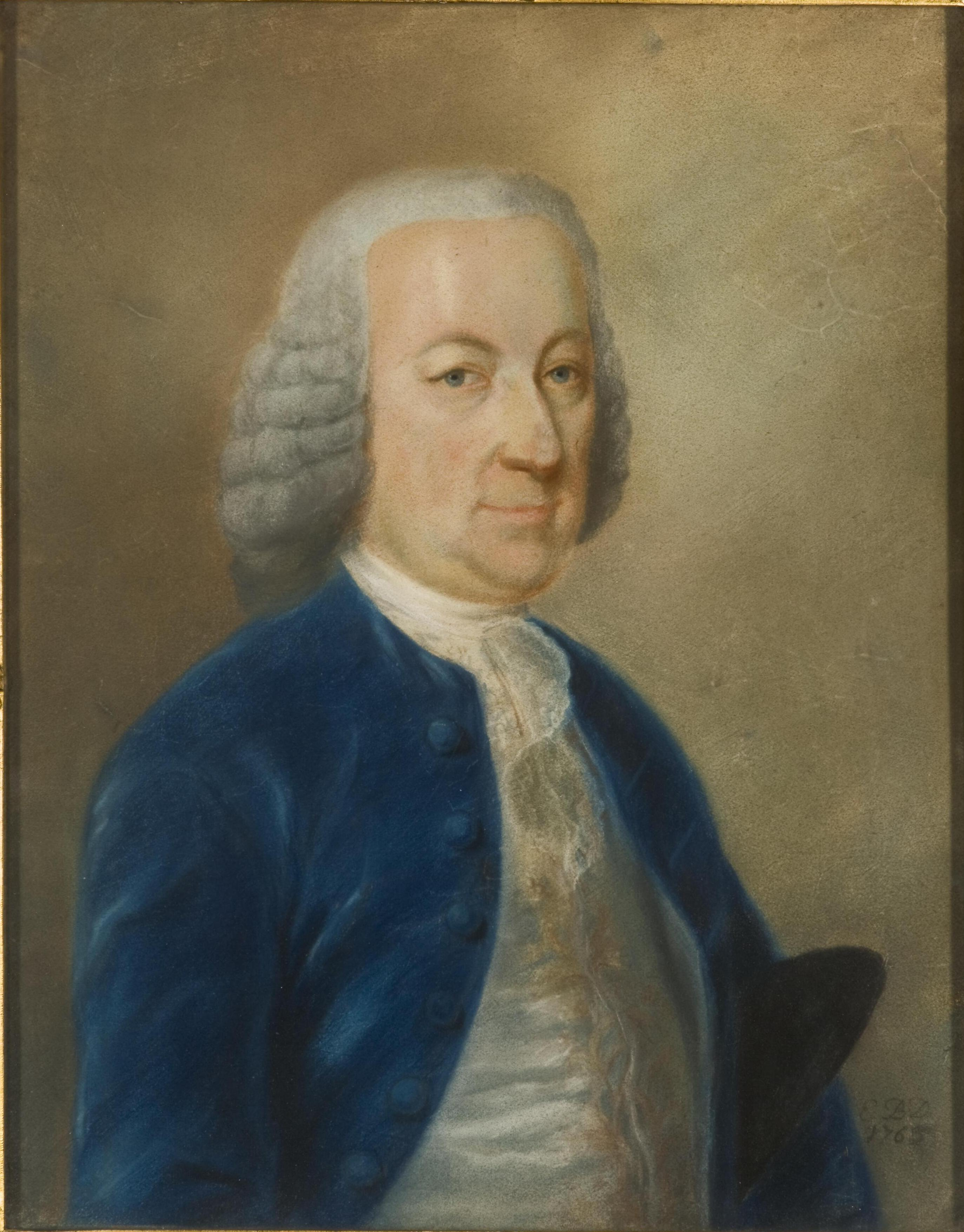 Johan Pieter Dierkens (also written as Dierquens) (1710-1780), mayor of The Hague, the Netherlands